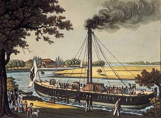 The steamship Princess Charlotte of Prussia, coloured engraving by Friedrich August Calau, 1818